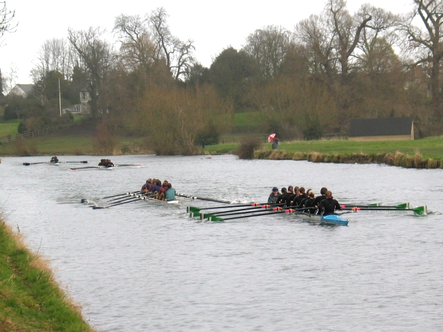 1st & 3rd Trinity 1st women about to overbump Girton on the 3rd day of the Cambridge Lent Bumps 2005